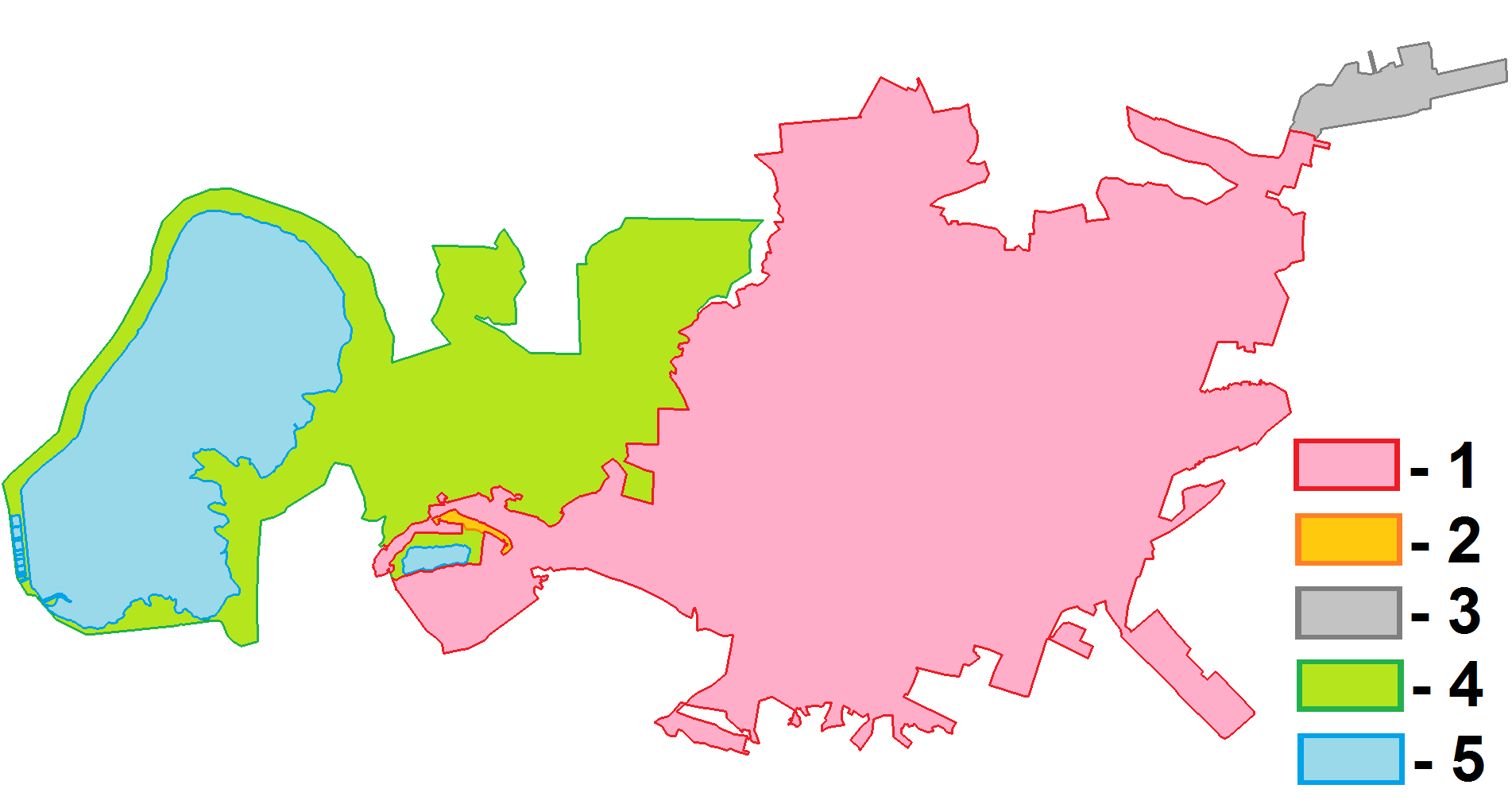 Area of the Urban Okrug Stavropol: 1 - (pink) Stavropol in the city limits 2 - (orange) Grushevy settlement in the settlement limits 3 - (grey) Shpakovskoye airport 4 - (green) forrested lands 5 - (blue) water bodies